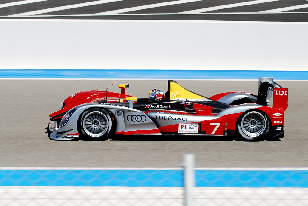 The #7 Audi R15 TDI of Audi Sport Team Joest driven by Rinaldo Capello and Allan McNish during 8 heures du Castellet 2010 qualifing.